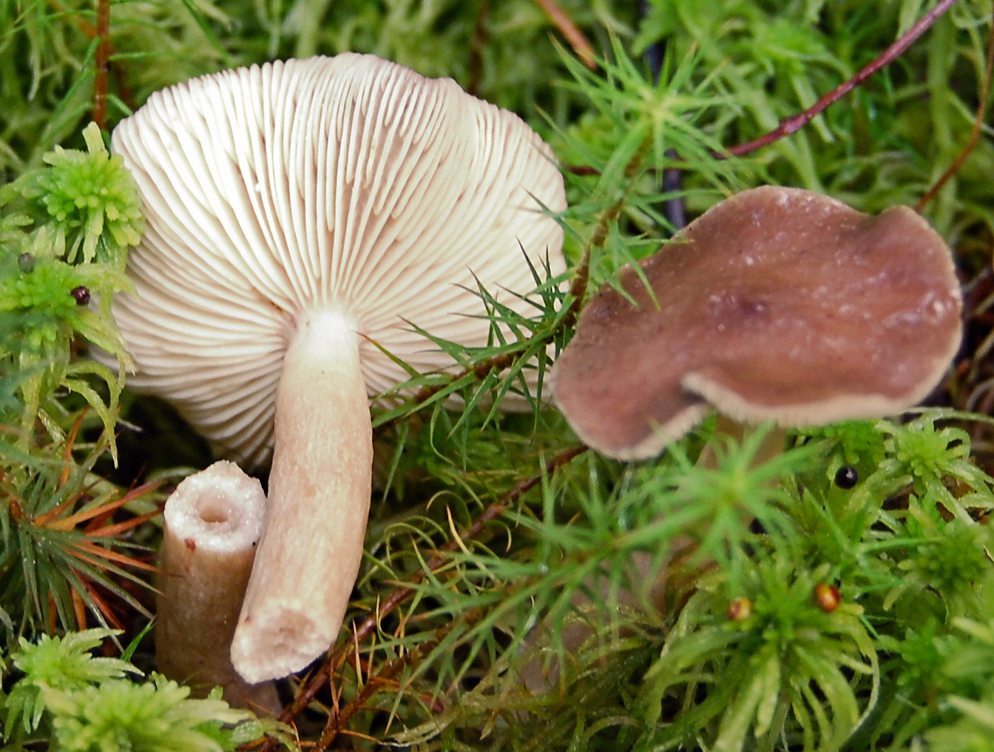 Lactarius vietus (Fr.) Fr. Image location: Basin of Ajmagramsy River, Yuganskij Reserve, Khanty-Mansi Autonomous Okrug—Yugra, Russia coll. number BAS-07081508 Recognized by sight Used references For more information about this, see the observation page at Mushroom Observer.